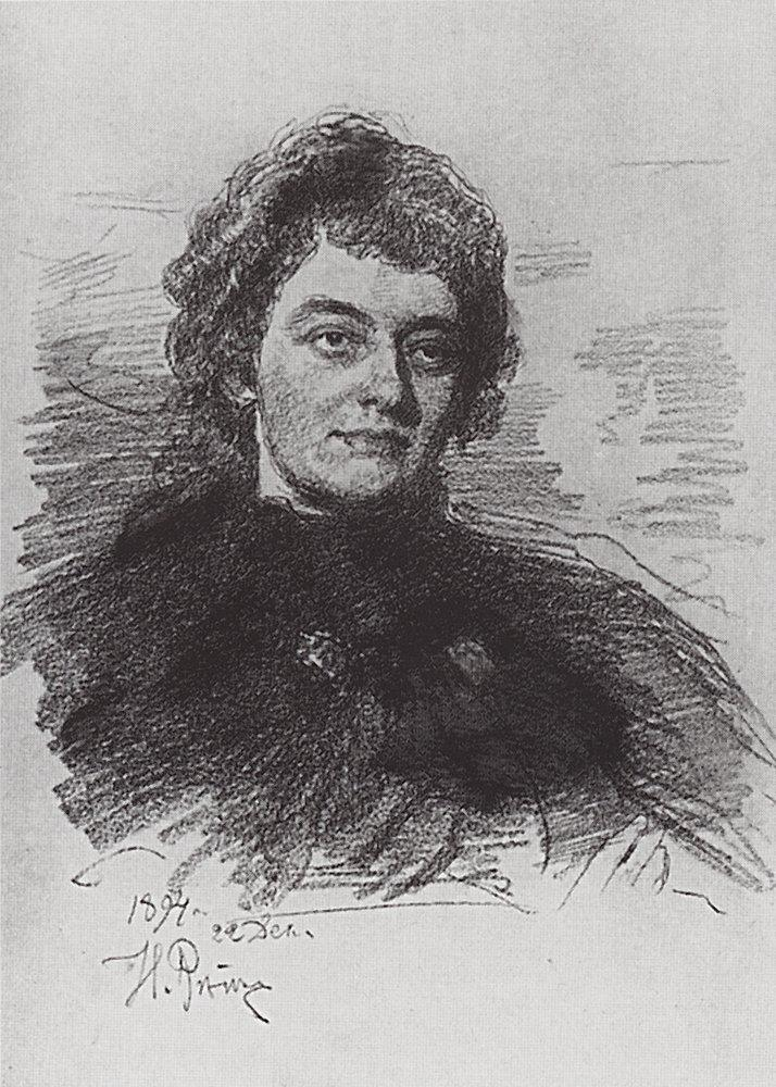 Portrait of poetess, writer and literary critic Zinaida Nikolayevna Gippius. Pencil on paper. 34 × 24 cm. Isaak Izrailevich Brodsky flat Museum, St. Petersburg.